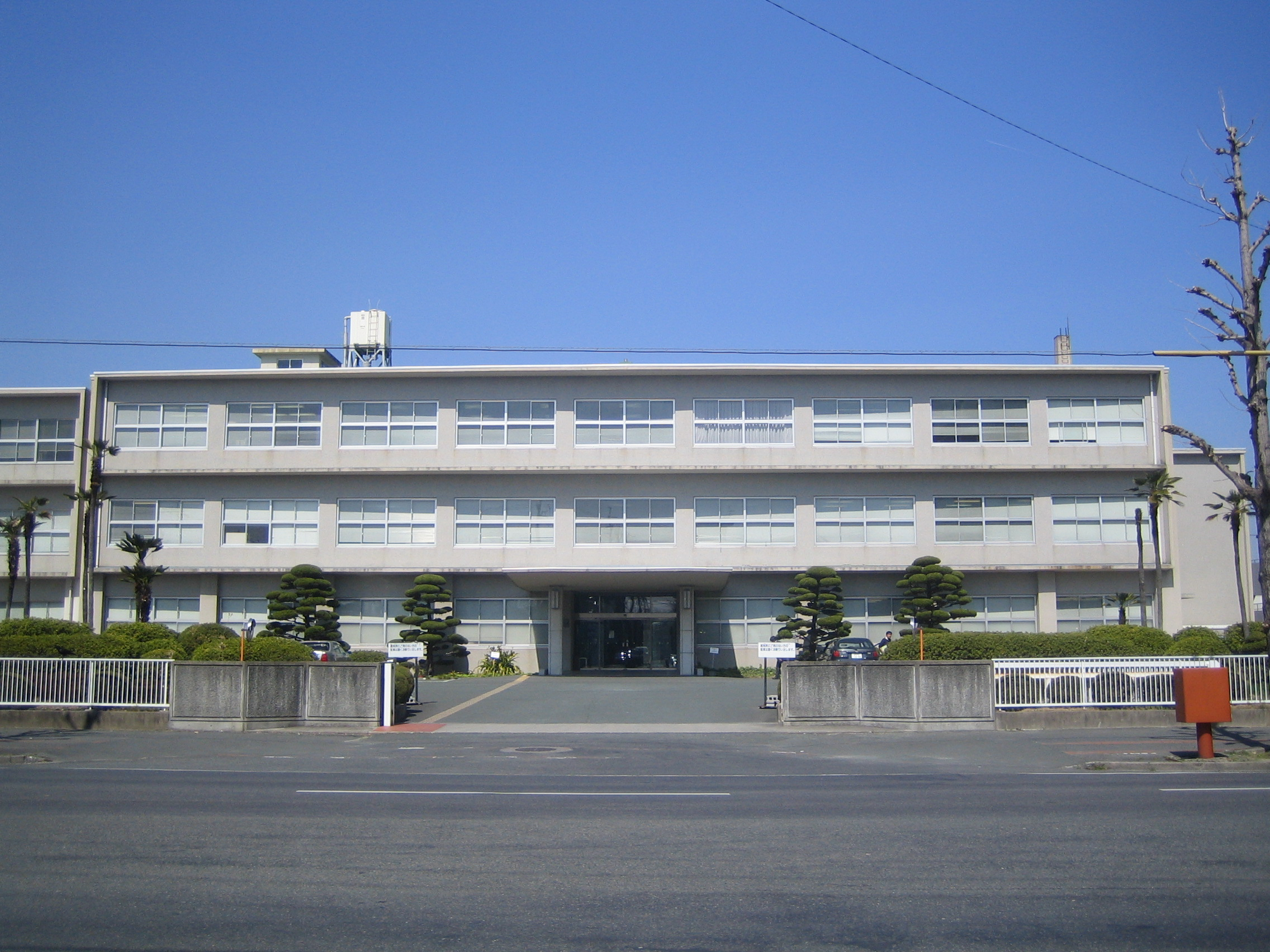 Toyohashi Branch of Nagoya District Court (名古屋地方裁判所豊橋支部), located in Toyohashi, Aichi, Japan